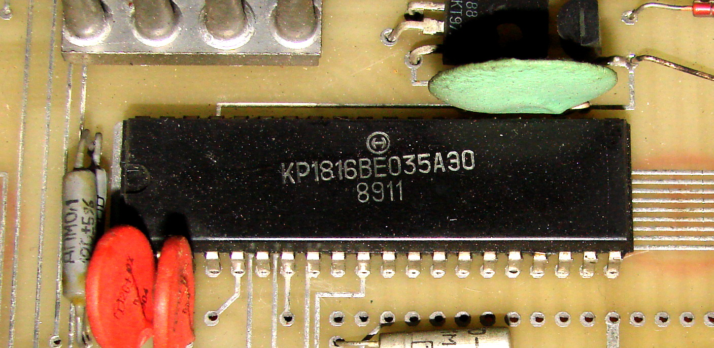 Soviet IC marking inscription